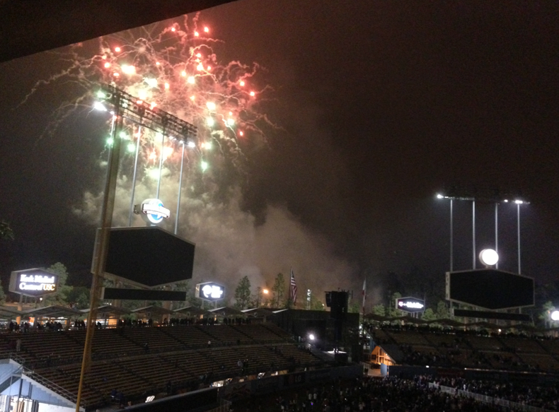 Dodger Stadium during a postgame "fireworks night" promotion